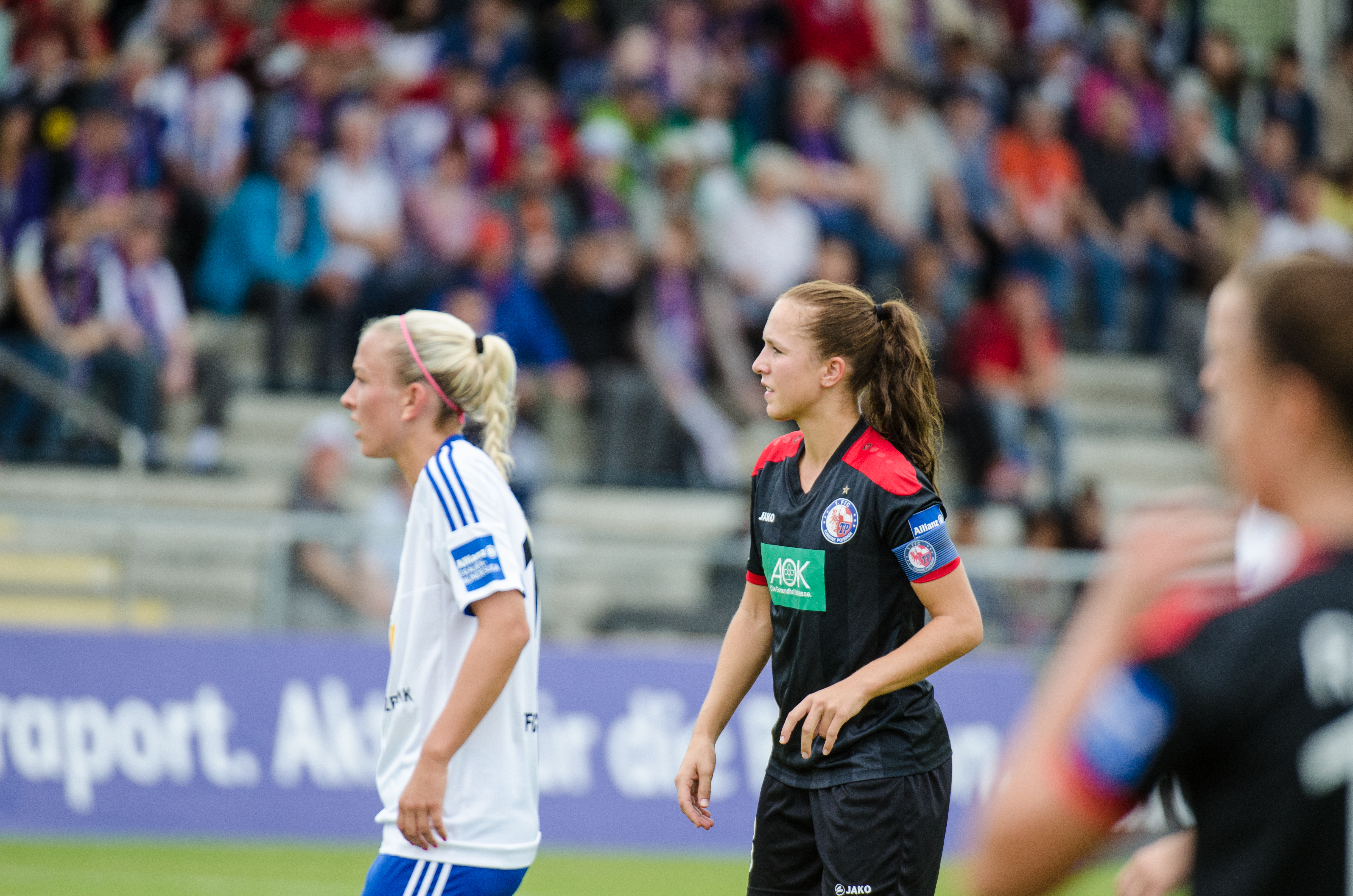 Match of the German Women's Football Bundesliga between 1.FFC Frankfurt and 1. FFC Turbine Potsdam, 2015-09-13